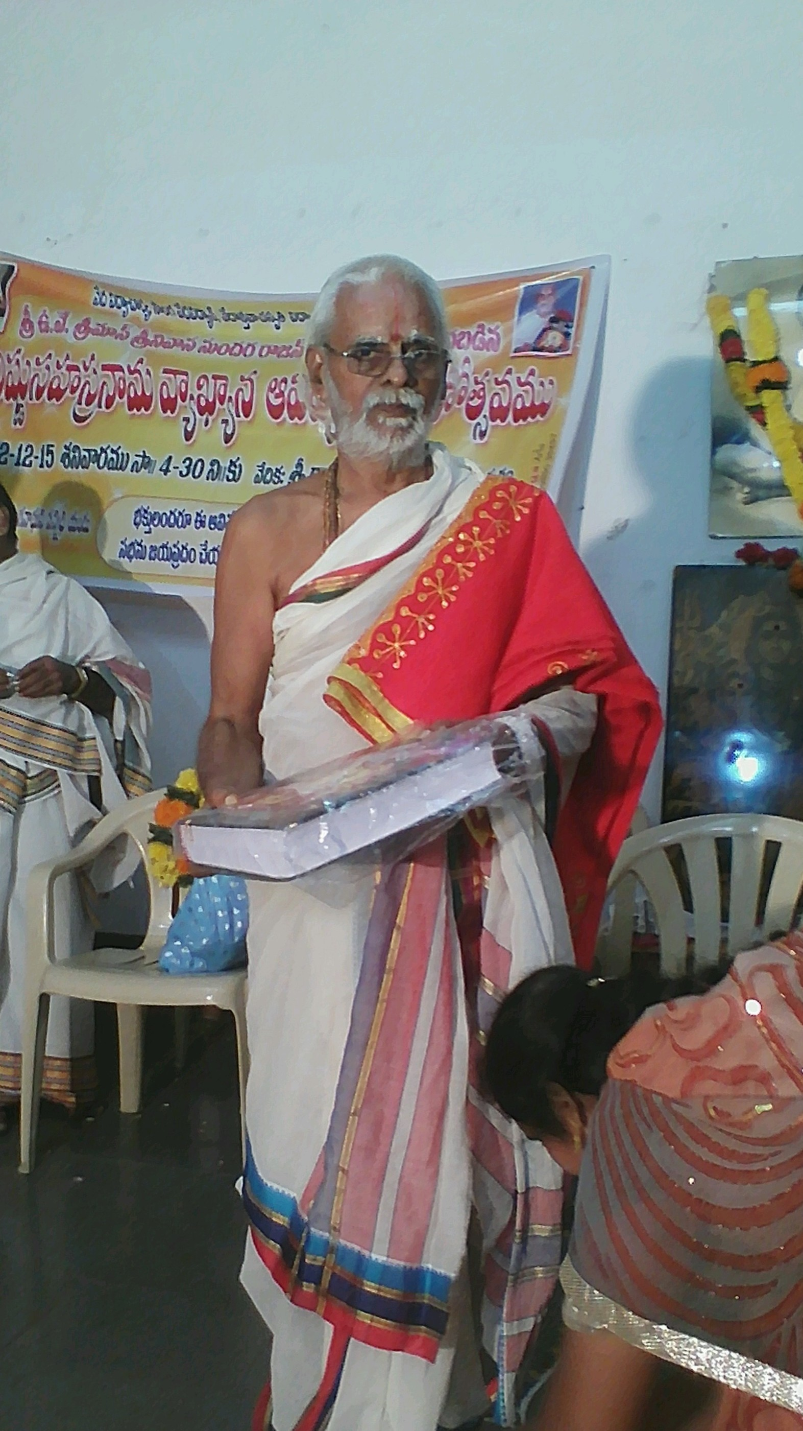 గ్రంధావిష్కరణ తణుకు శ్రీ రామకృష్ణ సేవాసమితి లో జరిగిన తరువాత భక్తులకు గ్రంధ వితరణ చేస్తున్న సుందరరాజన్ స్వామి